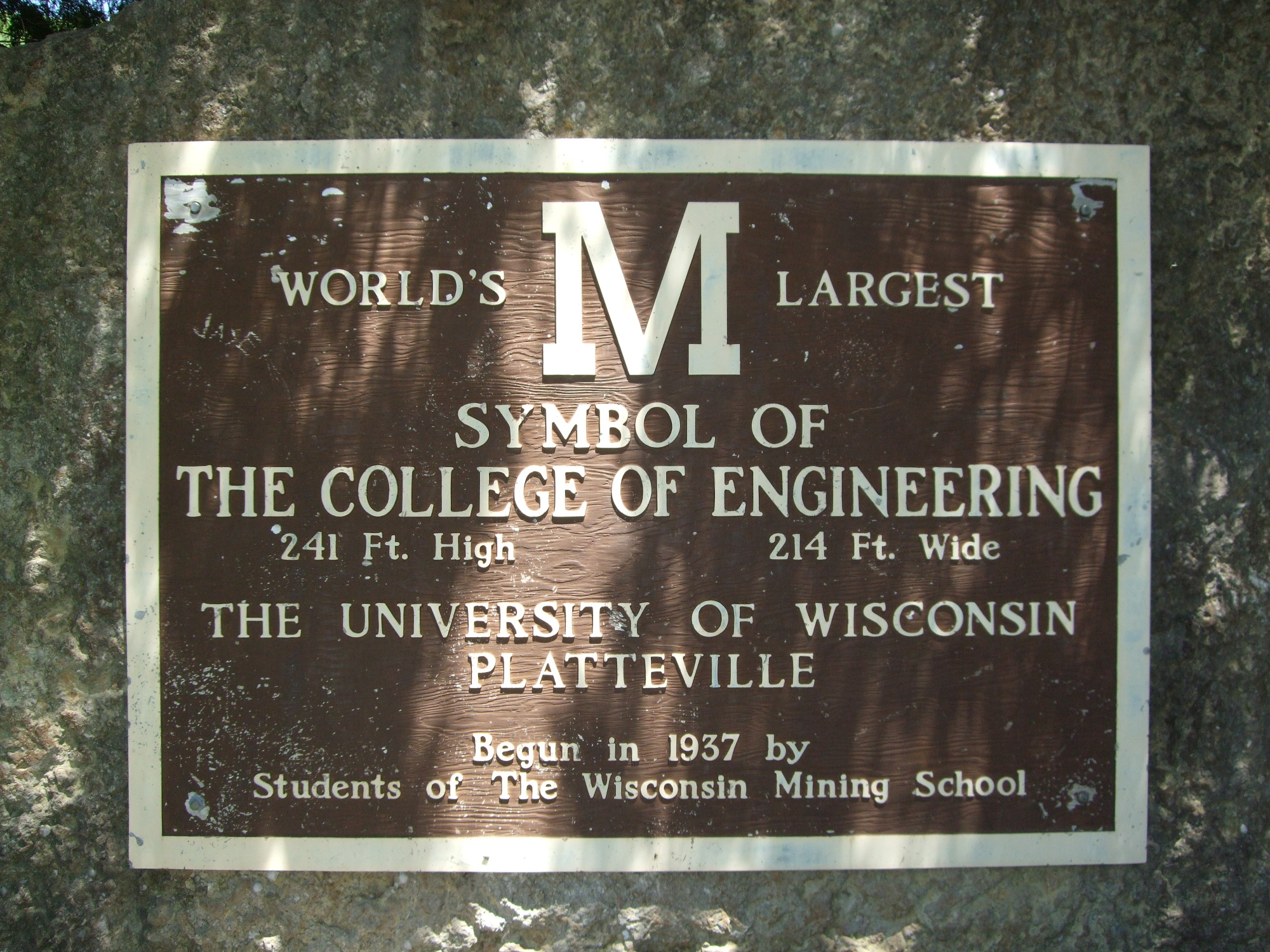 This plaque is at the base of the Platte Mound M near Platteville, Wisconsin.